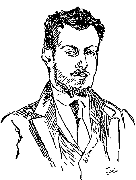 French writer and playwright Arthur Bernède (1871-1937) by Frédéric-Auguste Cazals (1865-1941)